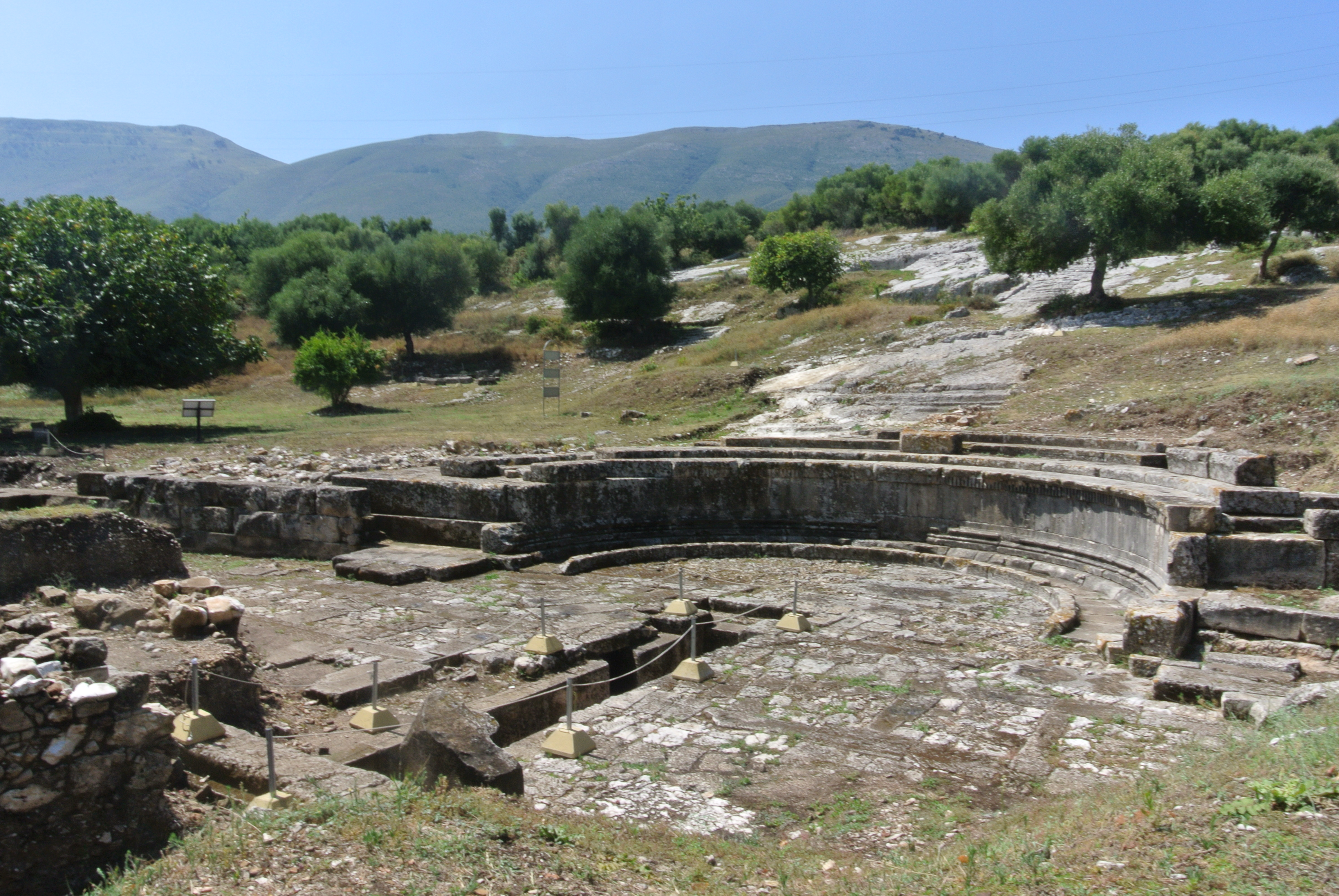 View from the site, the hydric monument